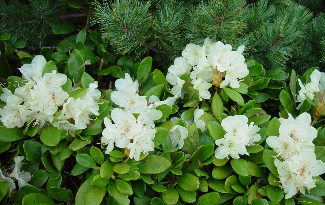 Rhododendron_aureum_Kibanashakunage_in_kannondake_2003_6_21